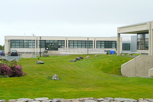 Údarás na Gaeltachta (Gaeltacht Authority) This is the headquarters of the authority that manages the Gealtacht (Irish-speaking) area of Connemara, to the west of Galway City.